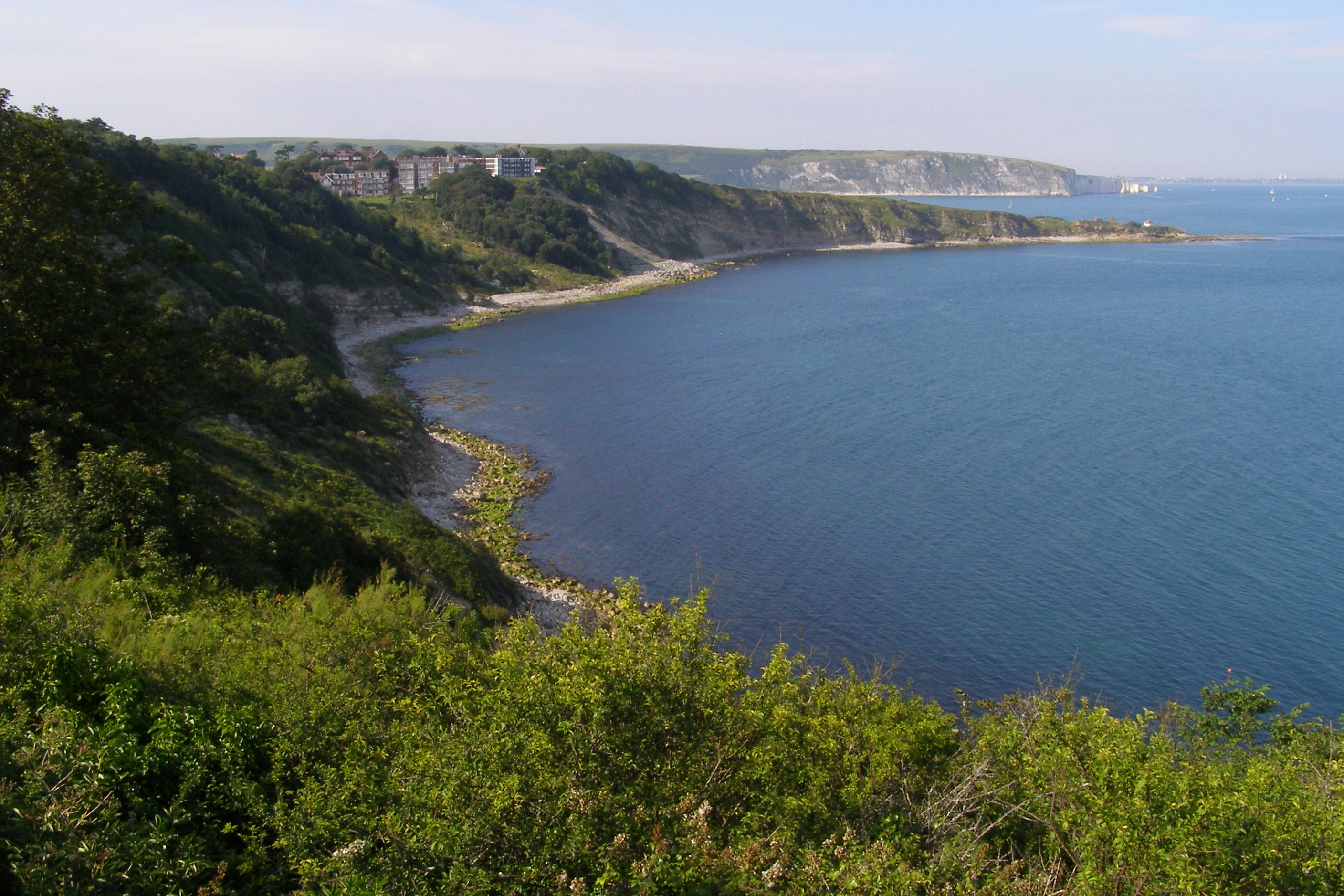 Durlston Bay from the viewpoint next to Durlston Castle, Dorset, U.K.